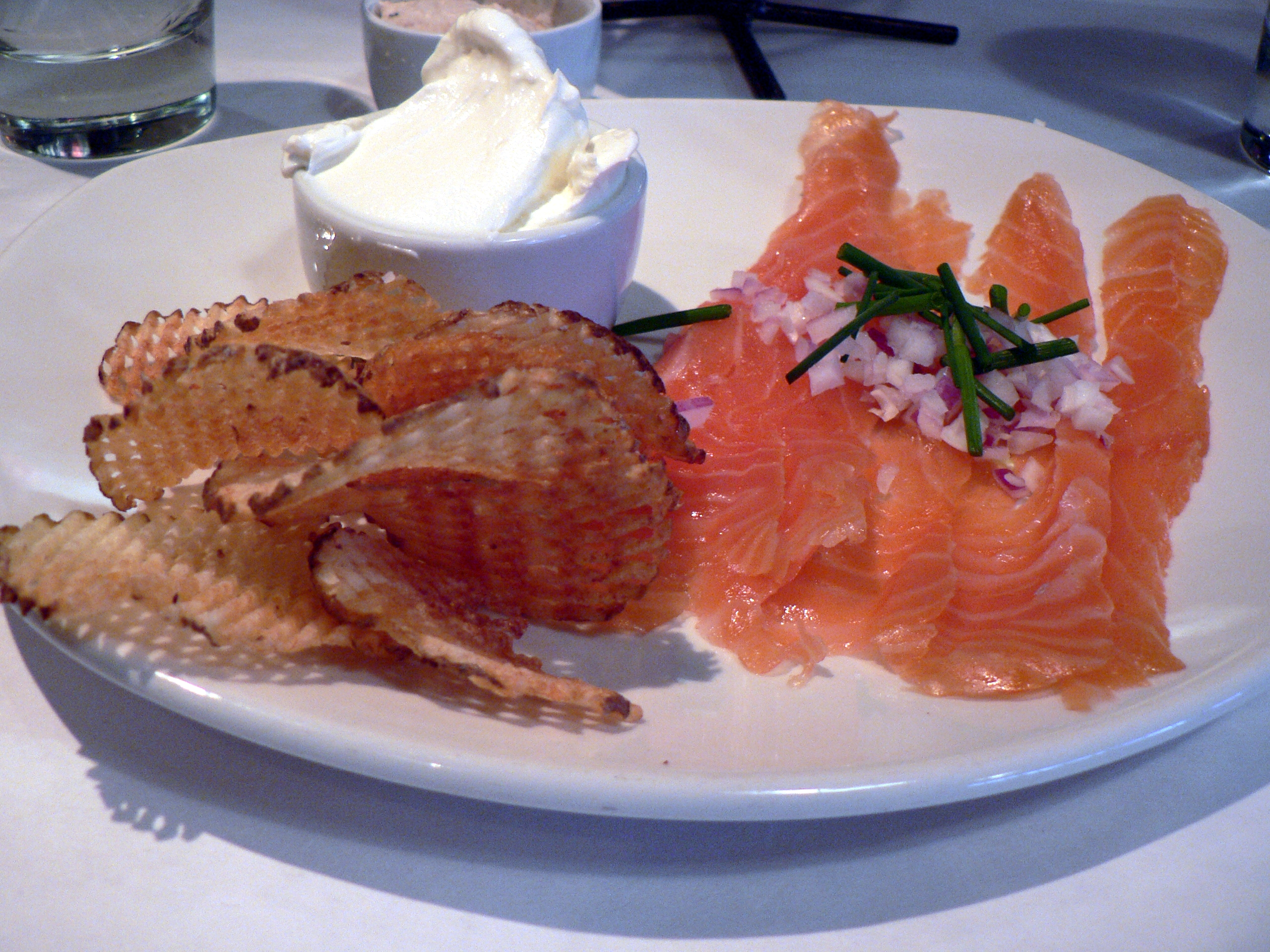 Pommes gaufrettes and smoked salmon — “‘FISH & CHIPS’ - house smoked salmon, potato gaufrettes, crème fraîche, red onion and chive” as served at Moxie the Restaurant in Cleveland, Ohio, USA. Description taken from their online lunch menu, as viewed on 2007-06-22.